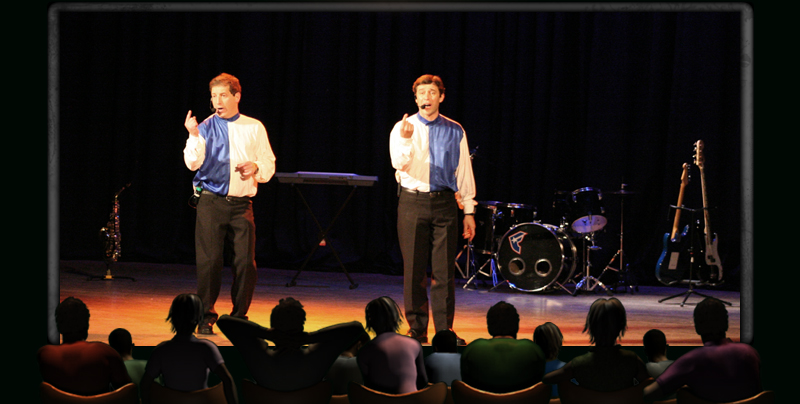 Foto del duo humoristico Los Mosquitos